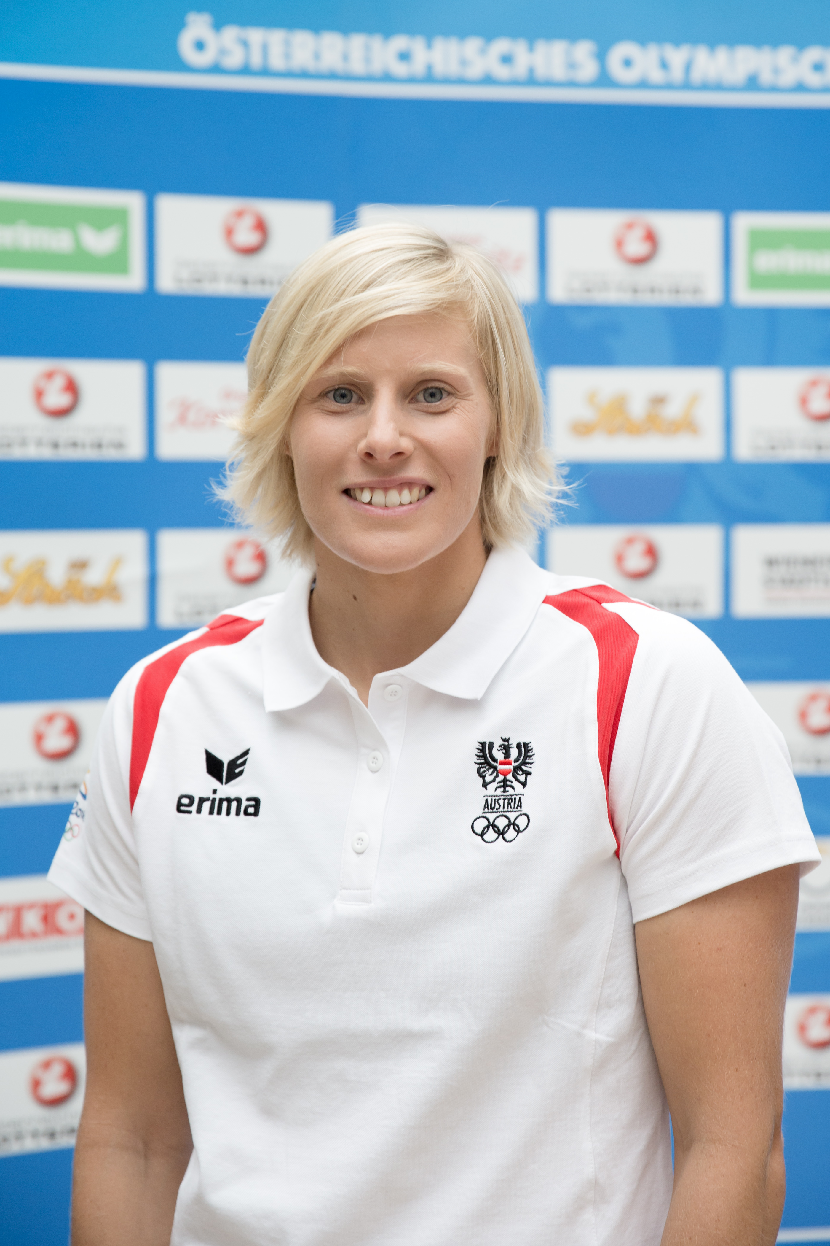 Corinna Kuhnle at the hand-out of the Austrian teams official attire for the 2016 Summer Olympics (Marriott, Vienna).